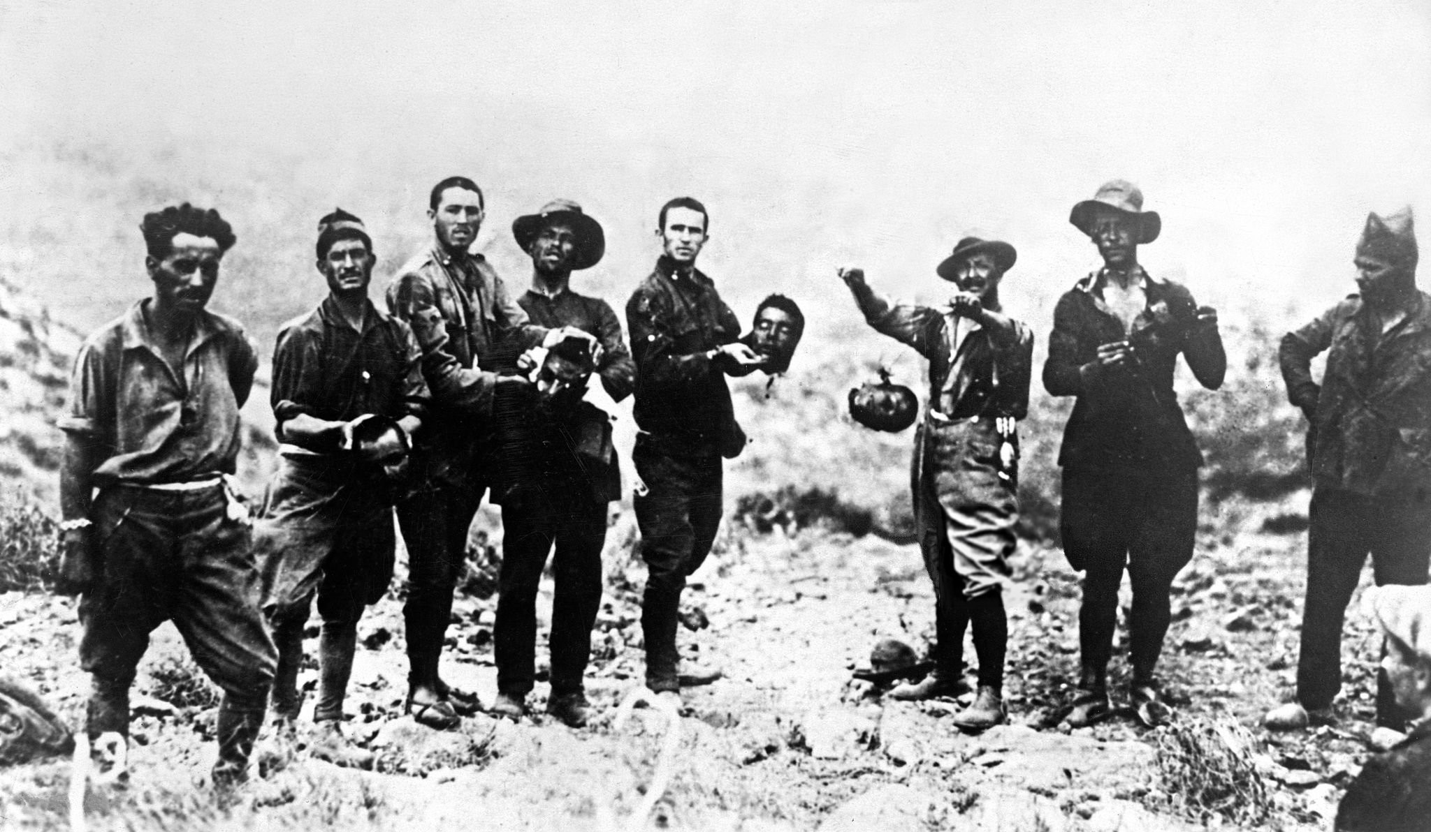 Anonymous photograph taken in the early 1920s showing legionnaries in Morocco holding up the heads of Morrocans they have captured and beheaded.